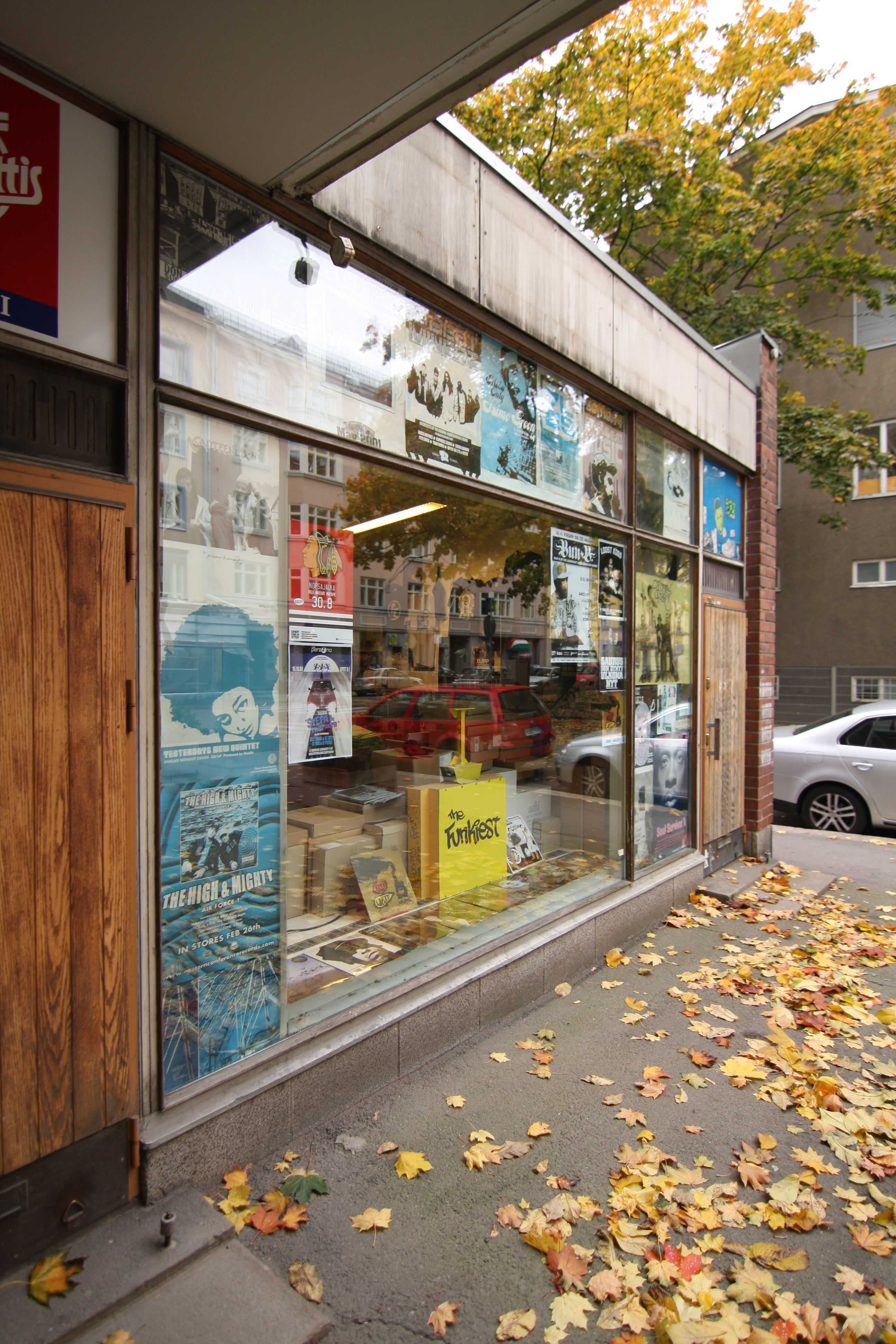 The Funkiest, a hip hop record store in Helsinki